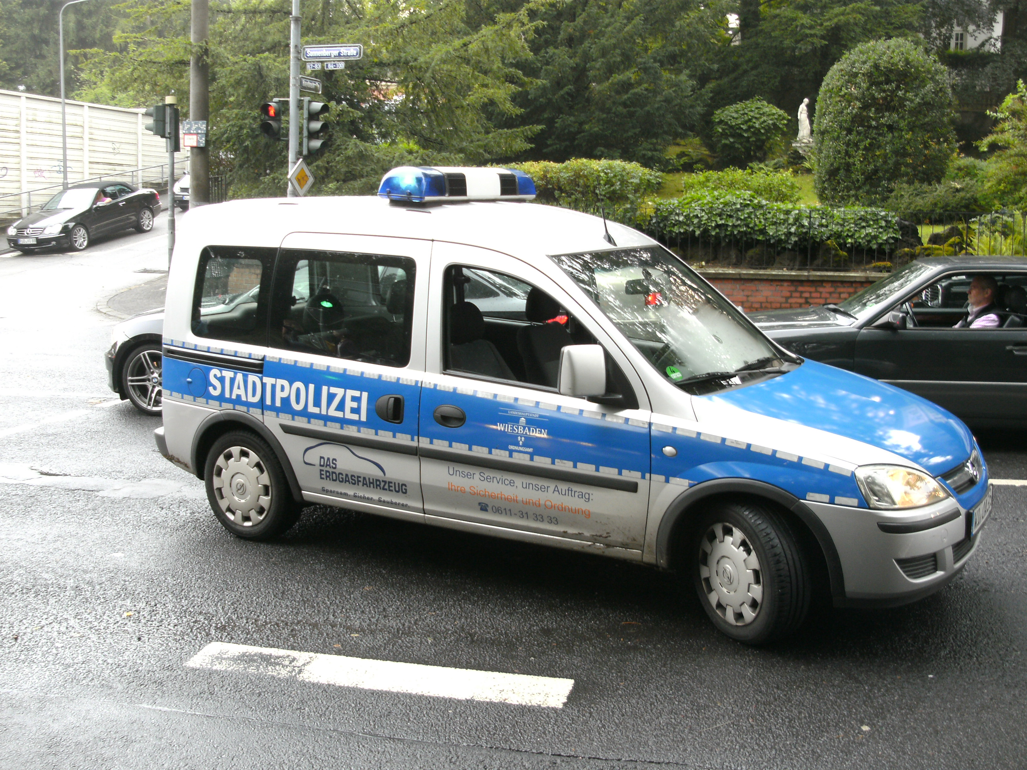 Stadtpolizei of Wiesbaden on duty while blocking a road in Sonnenberg after the big storm on July 11, 2014.